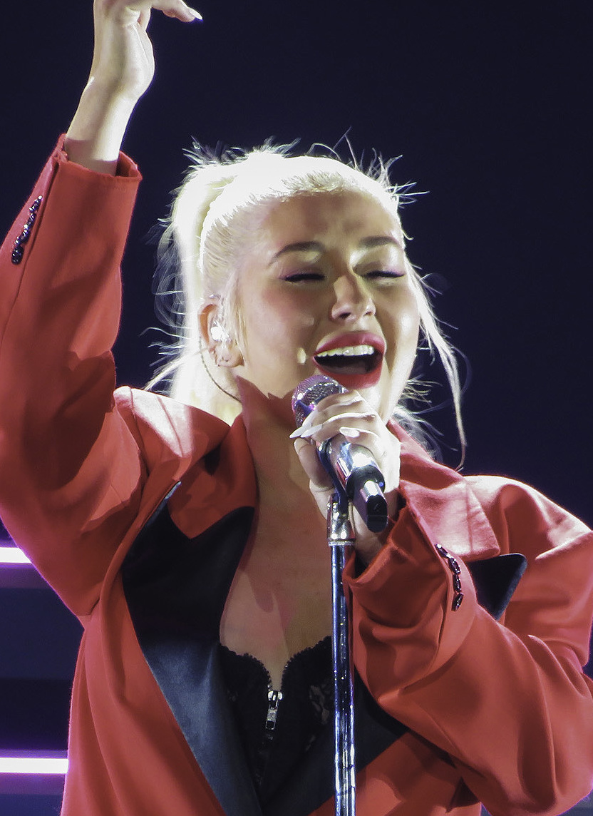 Christina Aguilera performing at the Pepsi Center on October 19, 2018 on her Liberation Tour.